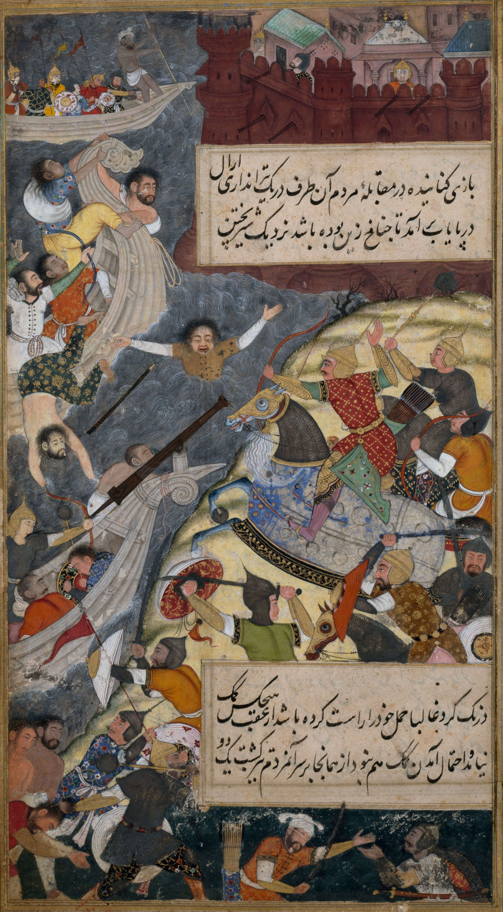 The "Memoirs of Babur" or Baburnama are the work of the great-great-great-grandson of Timur (Tamerlane), Zahiruddin Muhammad Babur (1483-1530). The Baburnama tells the tale of the prince's struggle first to assert and defend his claim to the throne of Samarkand and the region of the Fergana Valley. After being driven out of Samarkand in 1501 by the Uzbek Shaibanids, he ultimately sought greener pastures, first in Kabul and then in northern India, where his descendants were the Moghul (Mughal) dynasty ruling in Delhi until 1858. The miniatures are from an illustrated copy of the Baburnama prepared for the author's grandson, the Mughal Emperor Akbar. It is worth remembering that the miniatures reflect the culture of the court at Delhi; hence, for example, the architecture of Central Asian cities resembles the architecture of Mughal India. Nonetheless, these illustrations are important as evidence of the tradition of exquisite miniature painting which developed at the court of Timur and his successors. Timurid miniatures are among the greatest artistic achievements of the Islamic world in the fifteenth and sixteenth centuries. Illustrations of Mughals from the Baburnama